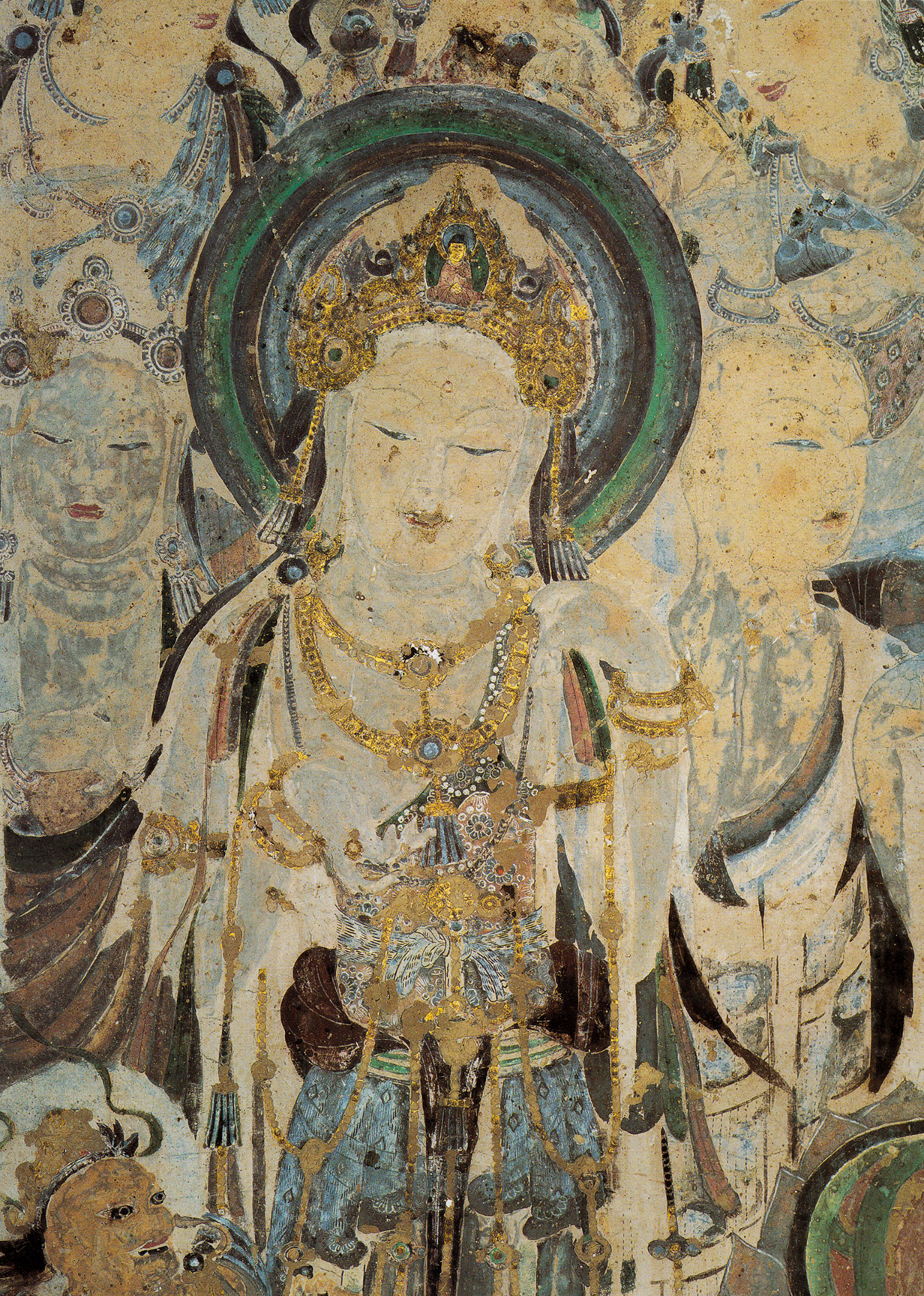 Mural of Avolokitesevara (Bodhisattva Guanyin), Worshipping Bodhisattvas and Mendicant. Early Tang Dynasty (618-907 A.D.). Cave 57, south wall.